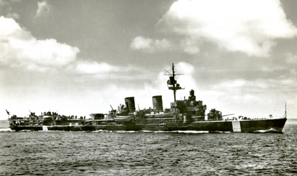 The Swedish cruiser HMS Gotland during WW2.